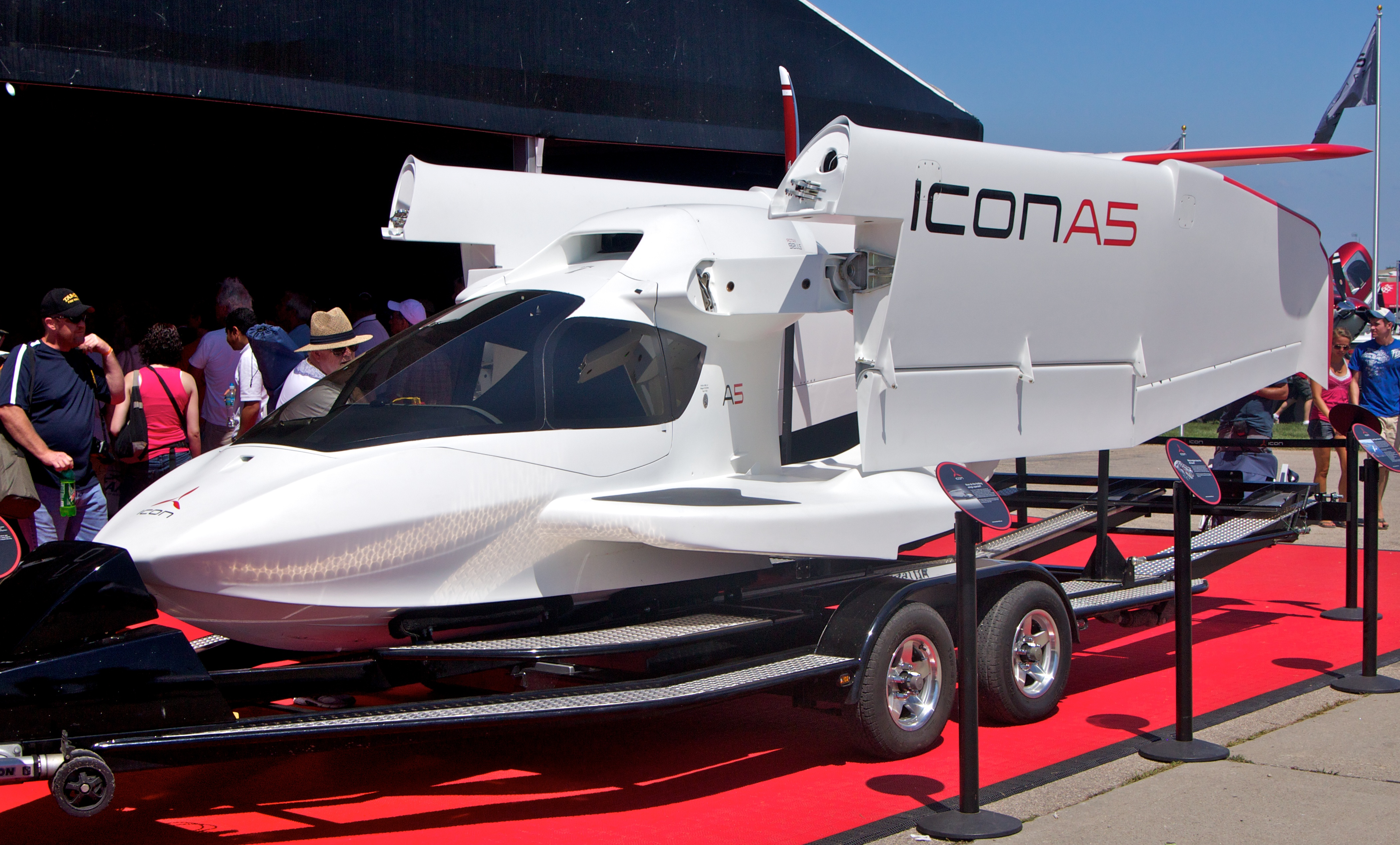 The Icon A5 amphibious aircraft, tail number N997BA, at the 2010 EAA AirVenture Oshkosh at Wittman Regional Airport in Wisconsin, United States. While being transported on its trailer, the wings are stowed to present a narrow profile. FAA Registry